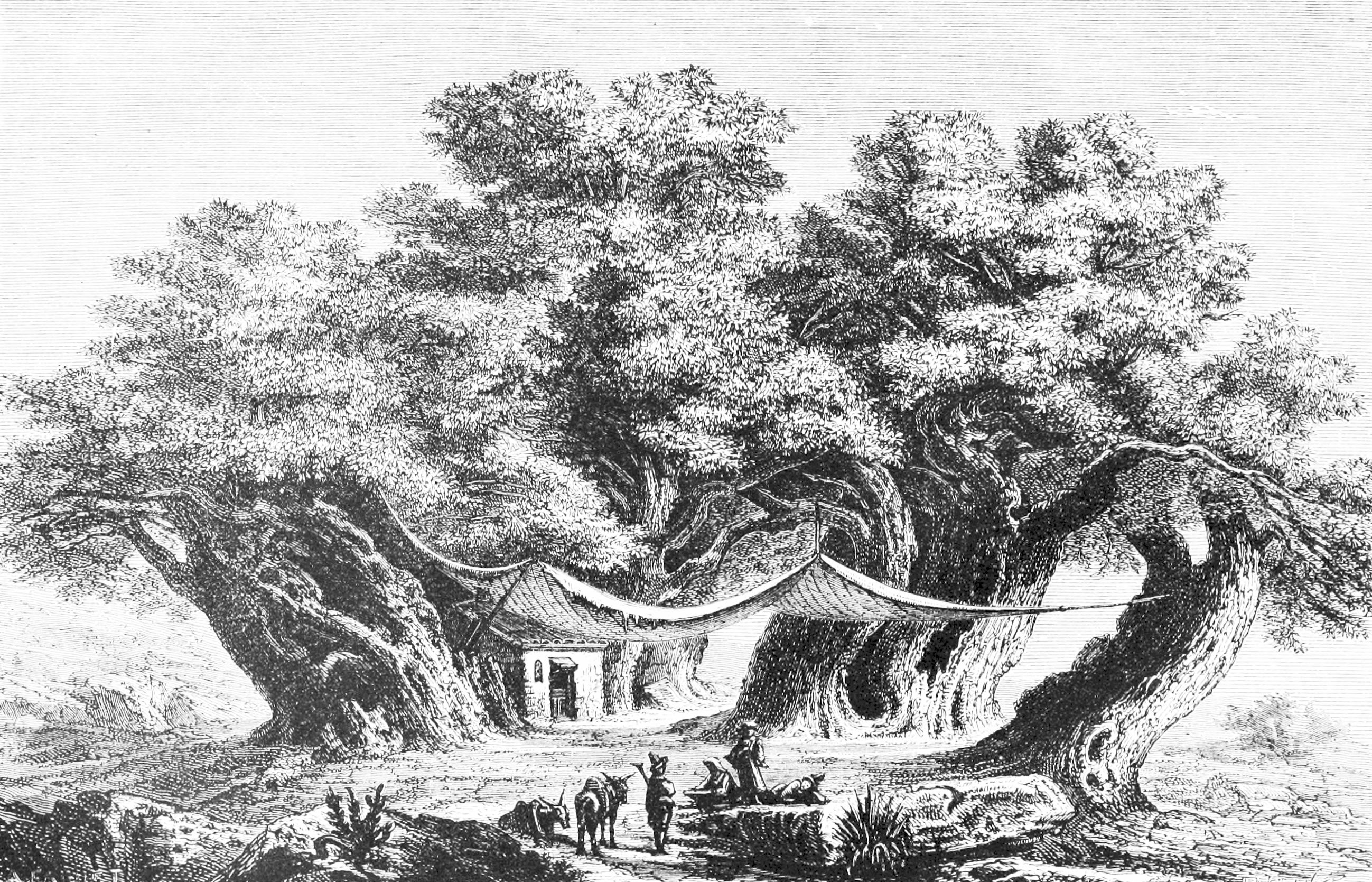 Hundred Horse Chestnut of Mount Aetna